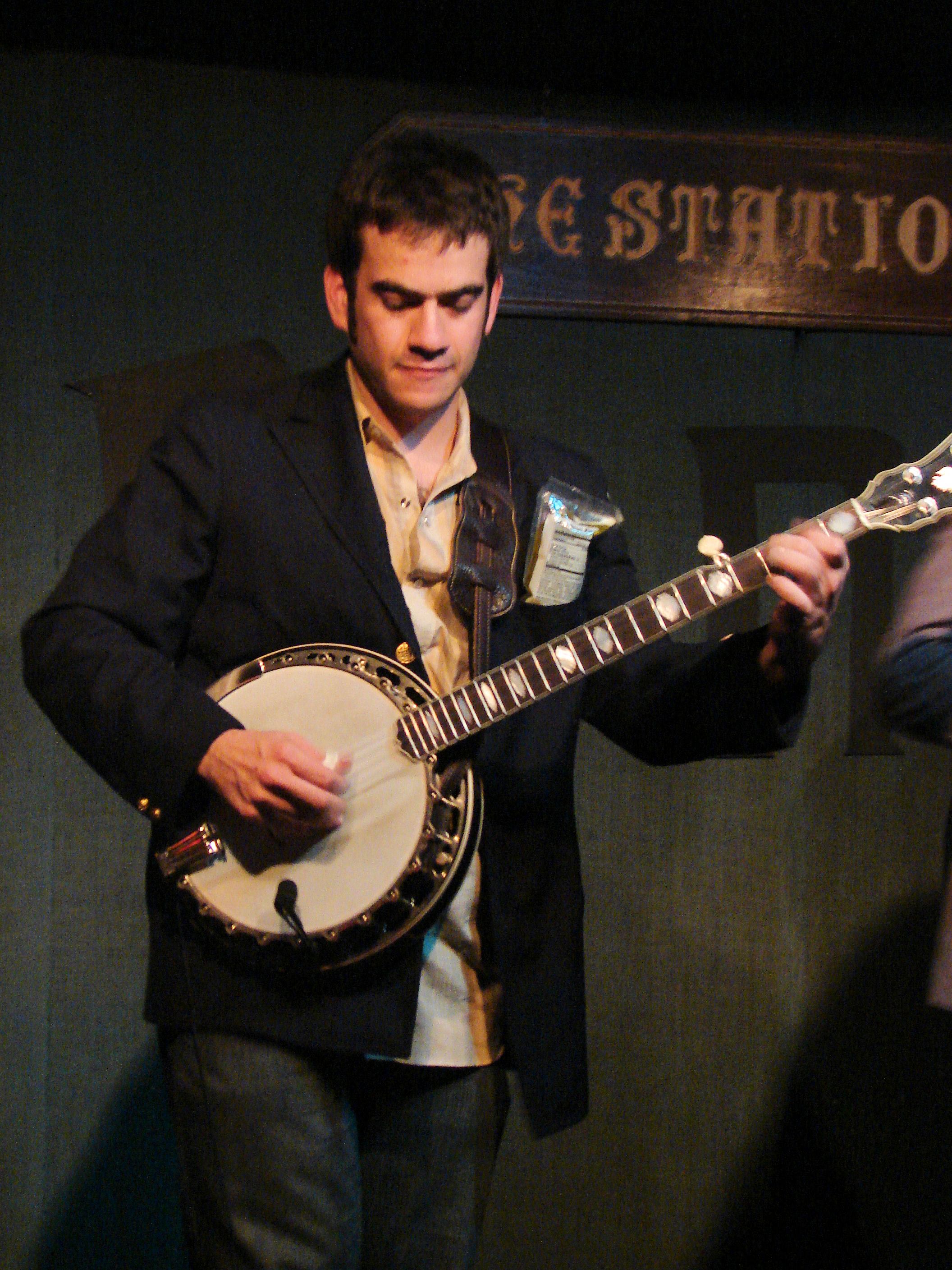 Photo of Noam Pikelny taken in September of 2007 at a Punch Brothers show. Station Inn, Nashville.